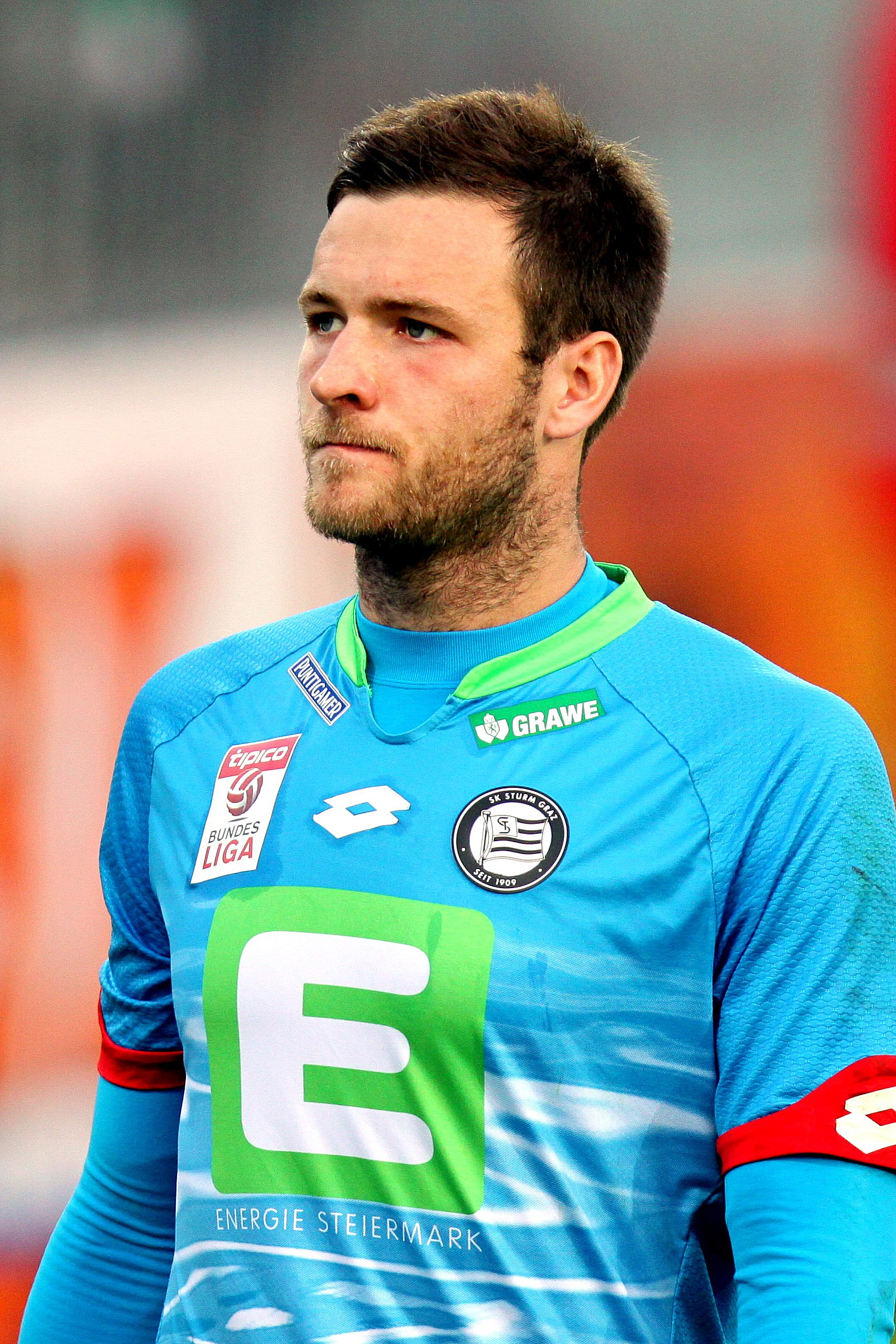 Match of the Austrian Football Bundesliga – SV Mattersburg (green shirts) vs. SK Sturm Graz (white shirts) on 2015-09-13 in Pappelstadion, Mattersburg – The photo shows Michael Esser (SK Sturm Graz)